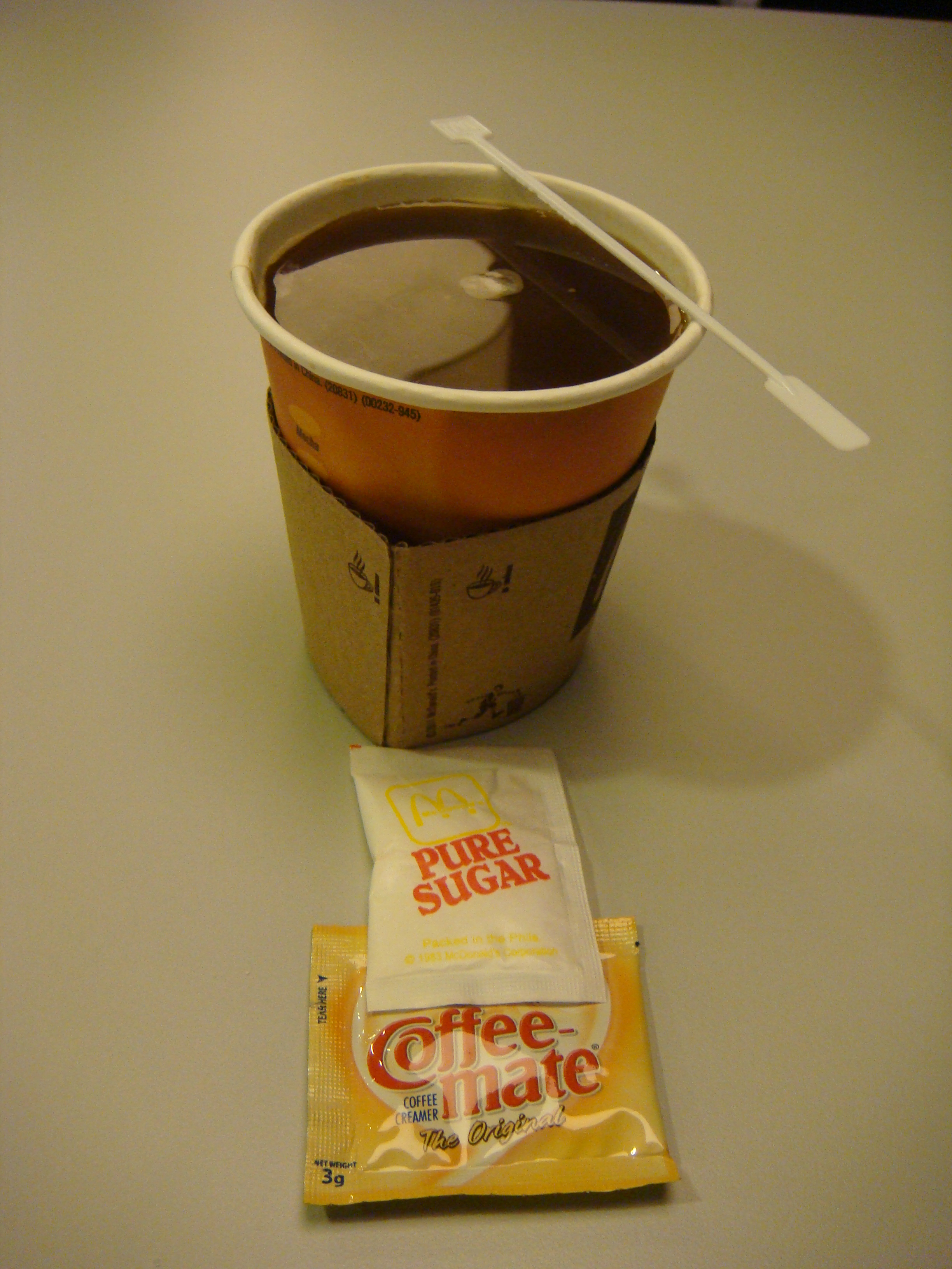 Brewed coffee, sugar and coffee mate